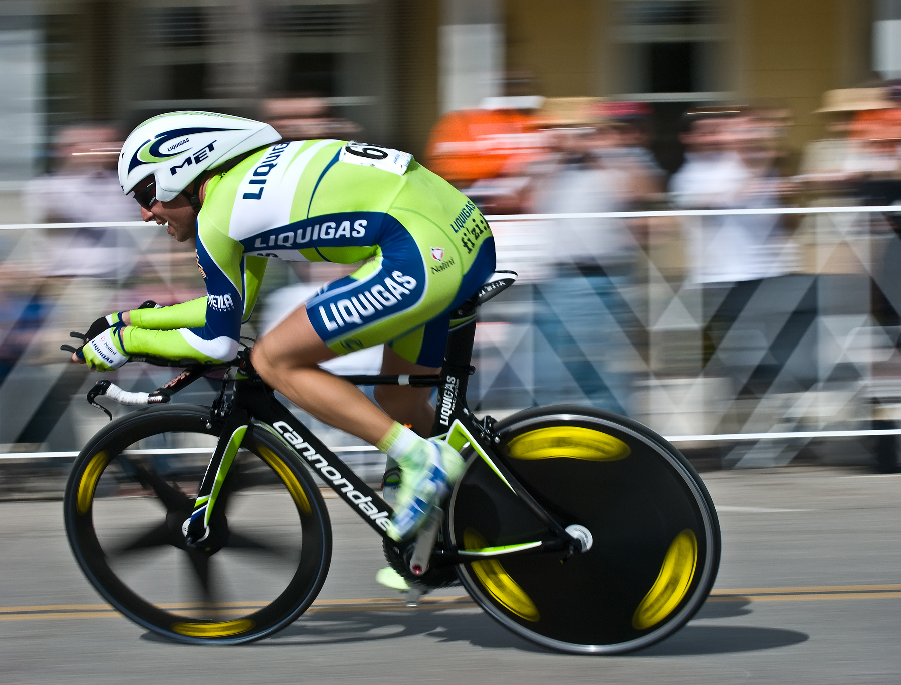 As seen on course in Los Olivos during the stage 6 time trials starting in Solvang.